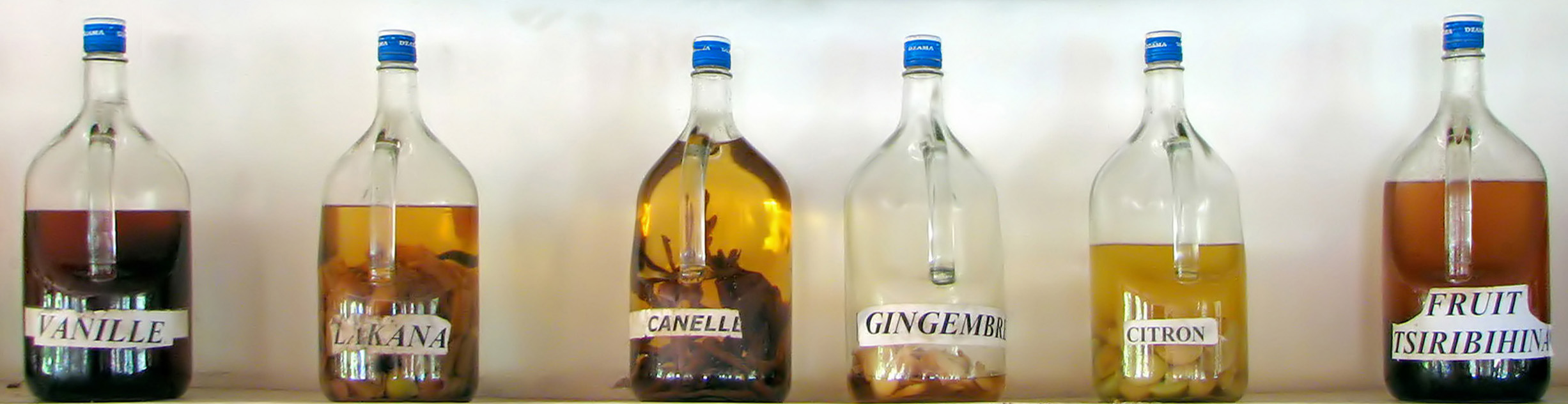 Local rum, Miandrivazo, Madagascar